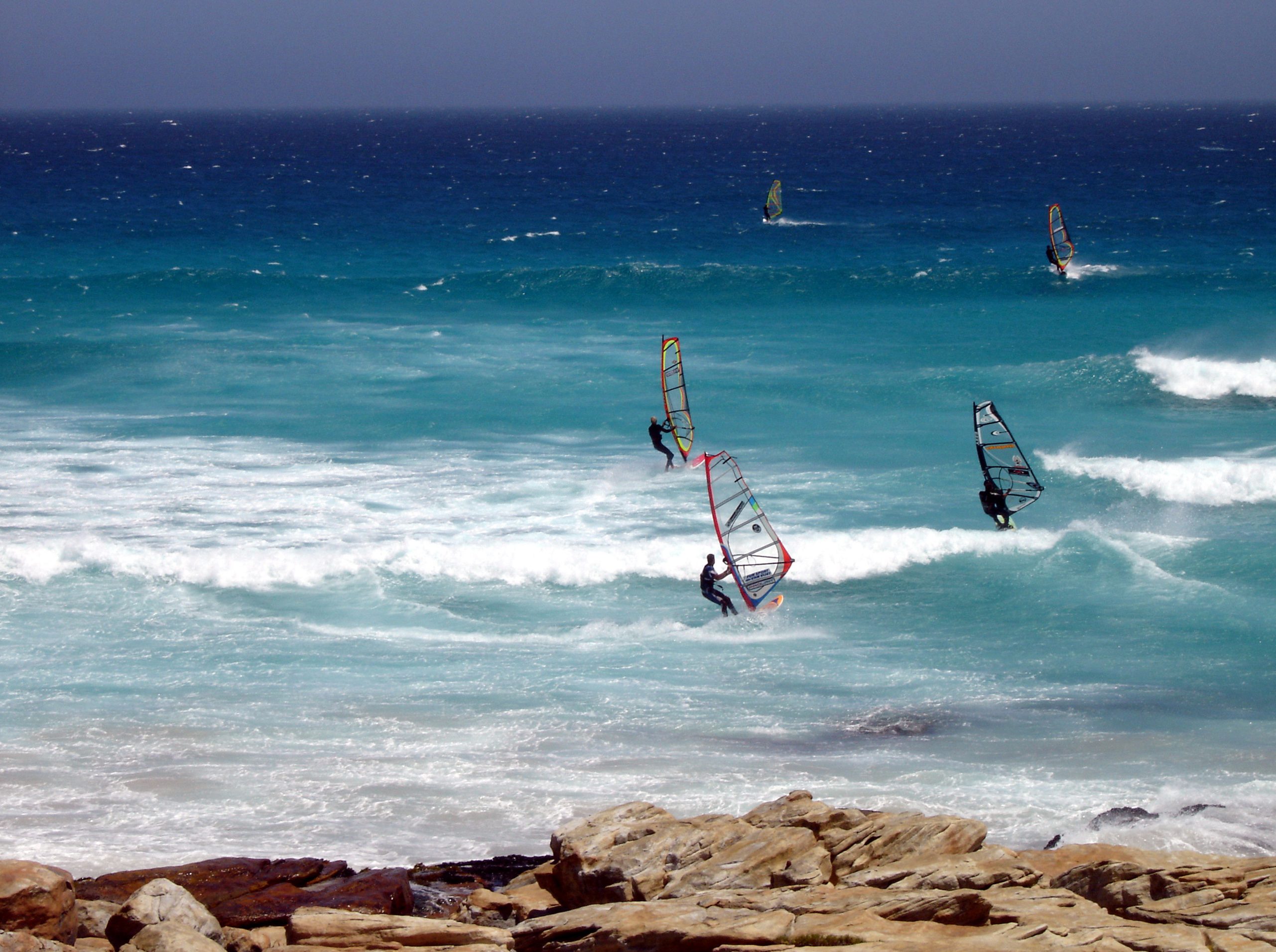 Surfing at Neptune's Diary Beach, Cape of Good Hope